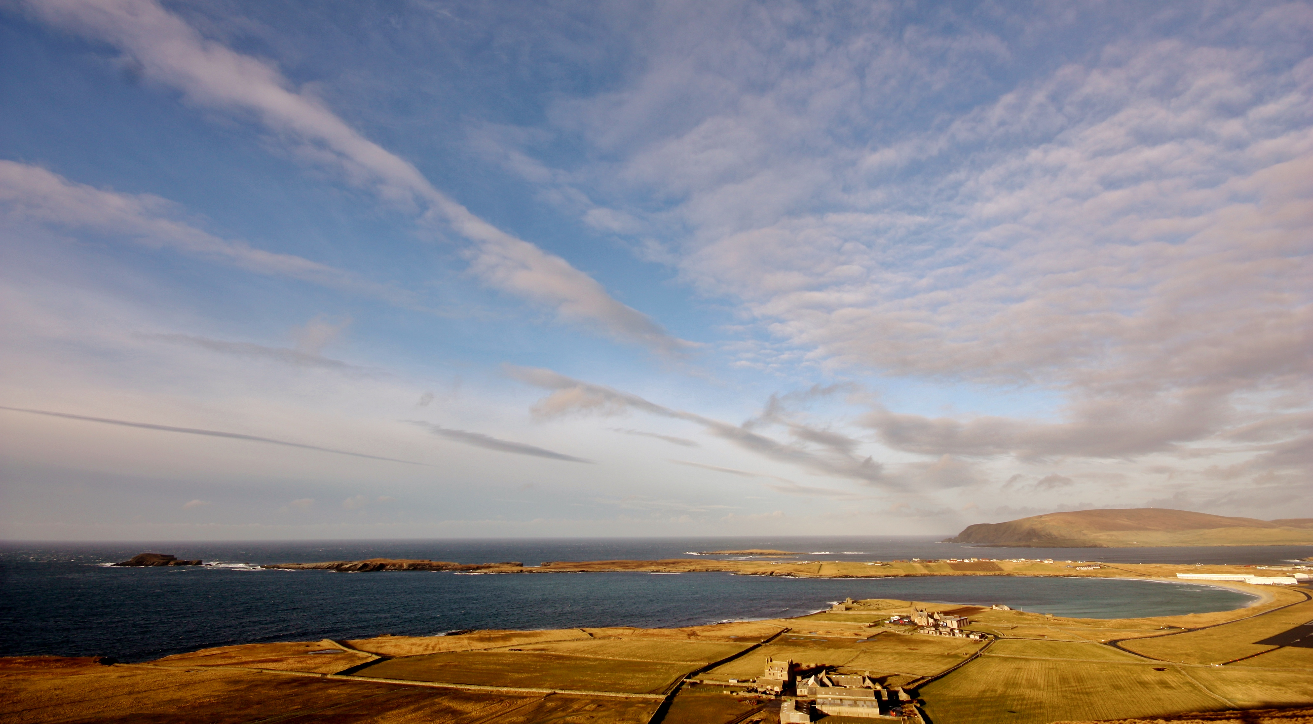 A wide angle shot from Compass Head